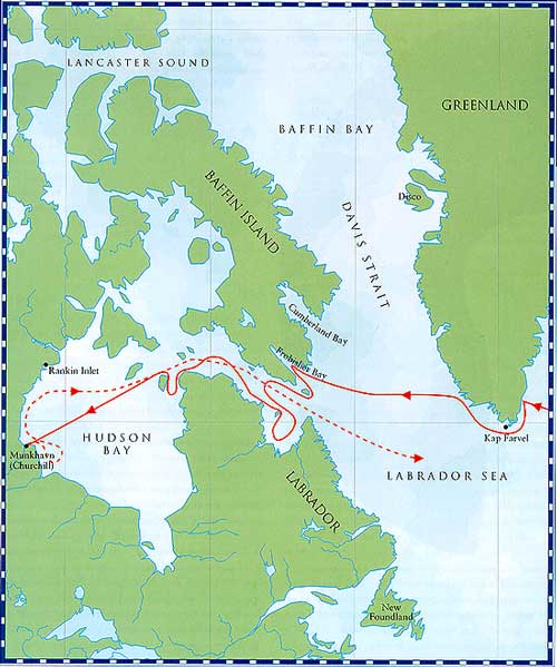 map over Jens Munks vouage 1619